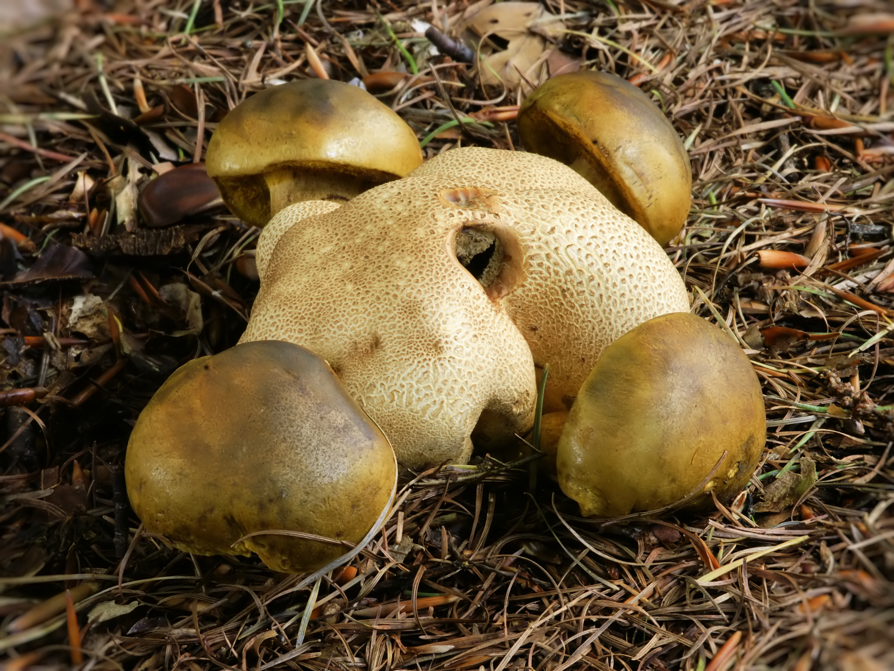 Parasitic Bolete on Common Earth ball at Domain Beisbroek, Brugge, Belgium